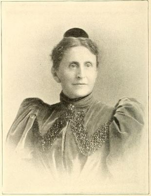 Mrs Daniel N. Morgan